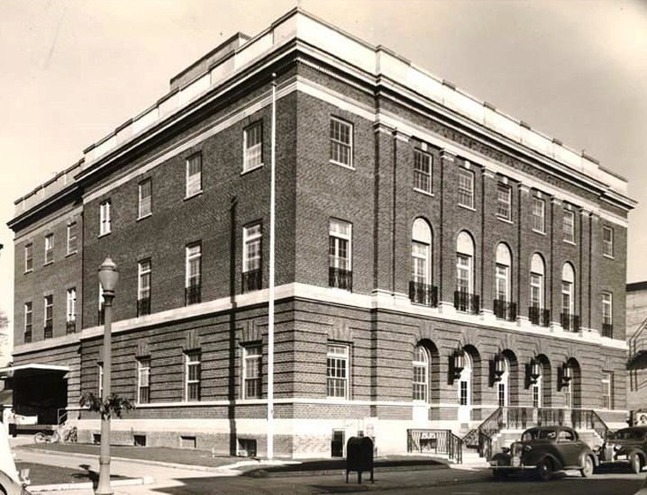 James A. Redden Federal Courthouse in Medford, Oregon, USA. (formerly U.S. Post Office and Courthouse)